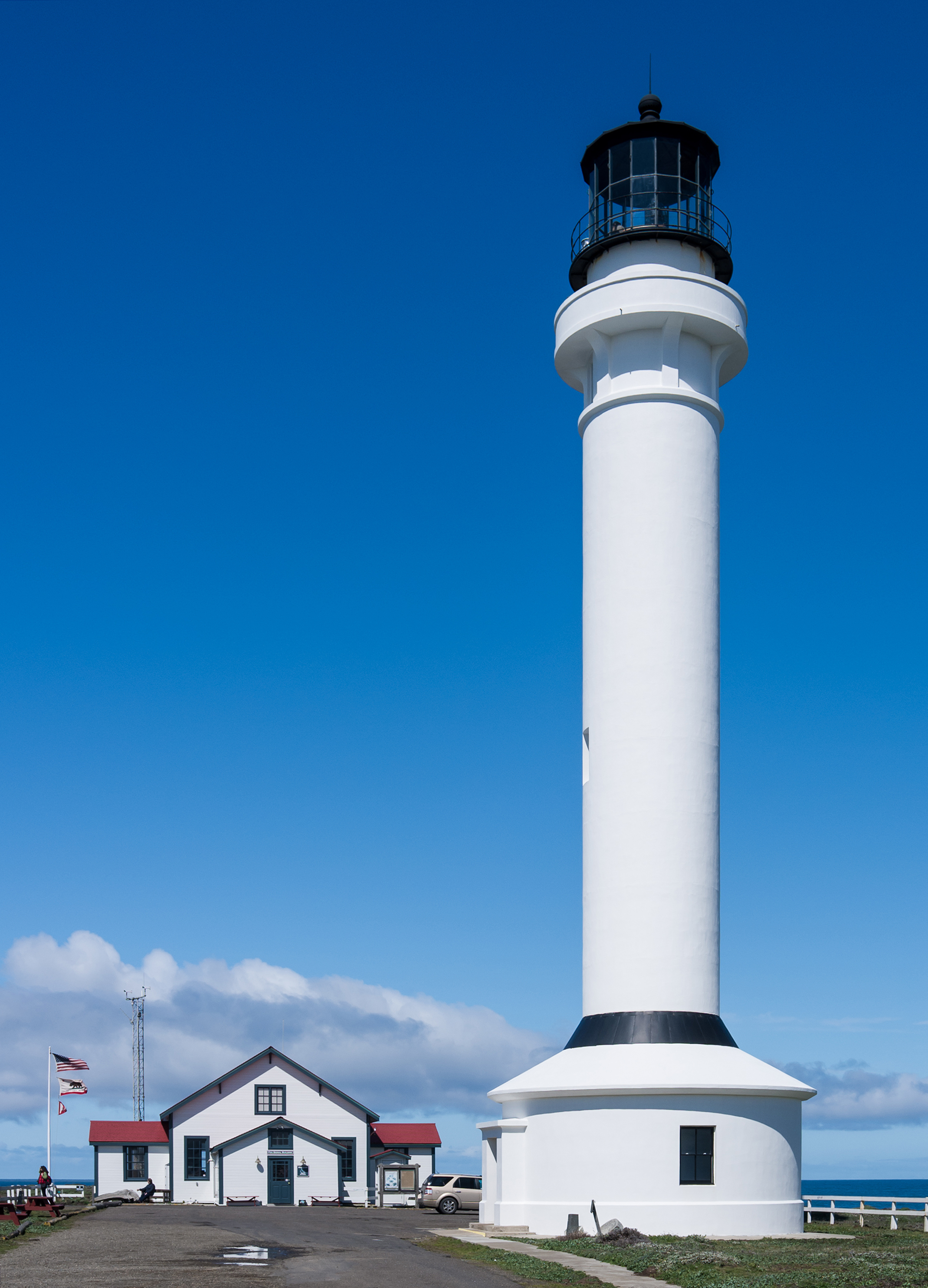 Point Arena Lighthouse, Mendocino County, California.